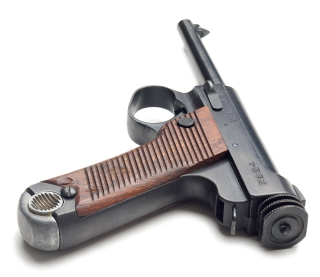 Nambu 8mm pistol